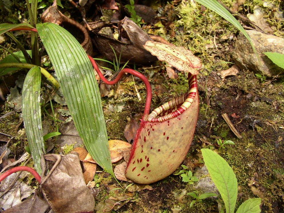 Nepenthes burbidgeae